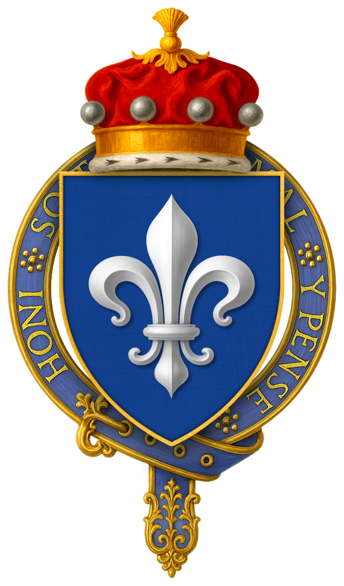 Coat of Arms of Edward Digby, 11th Baron Digby, KG, DSO, MC, TD, JP